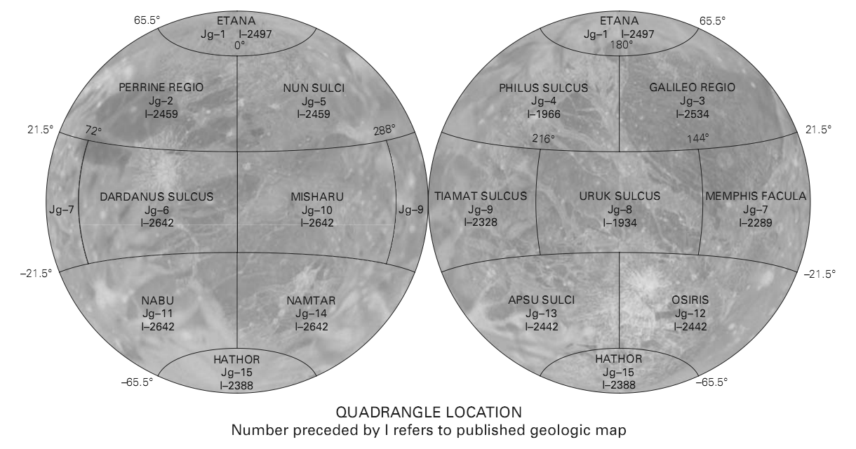 This quadrangle map was made by compositing the two quadrangle maps in the Ganymede map PDFs taken from the USGS web page provided as the source.